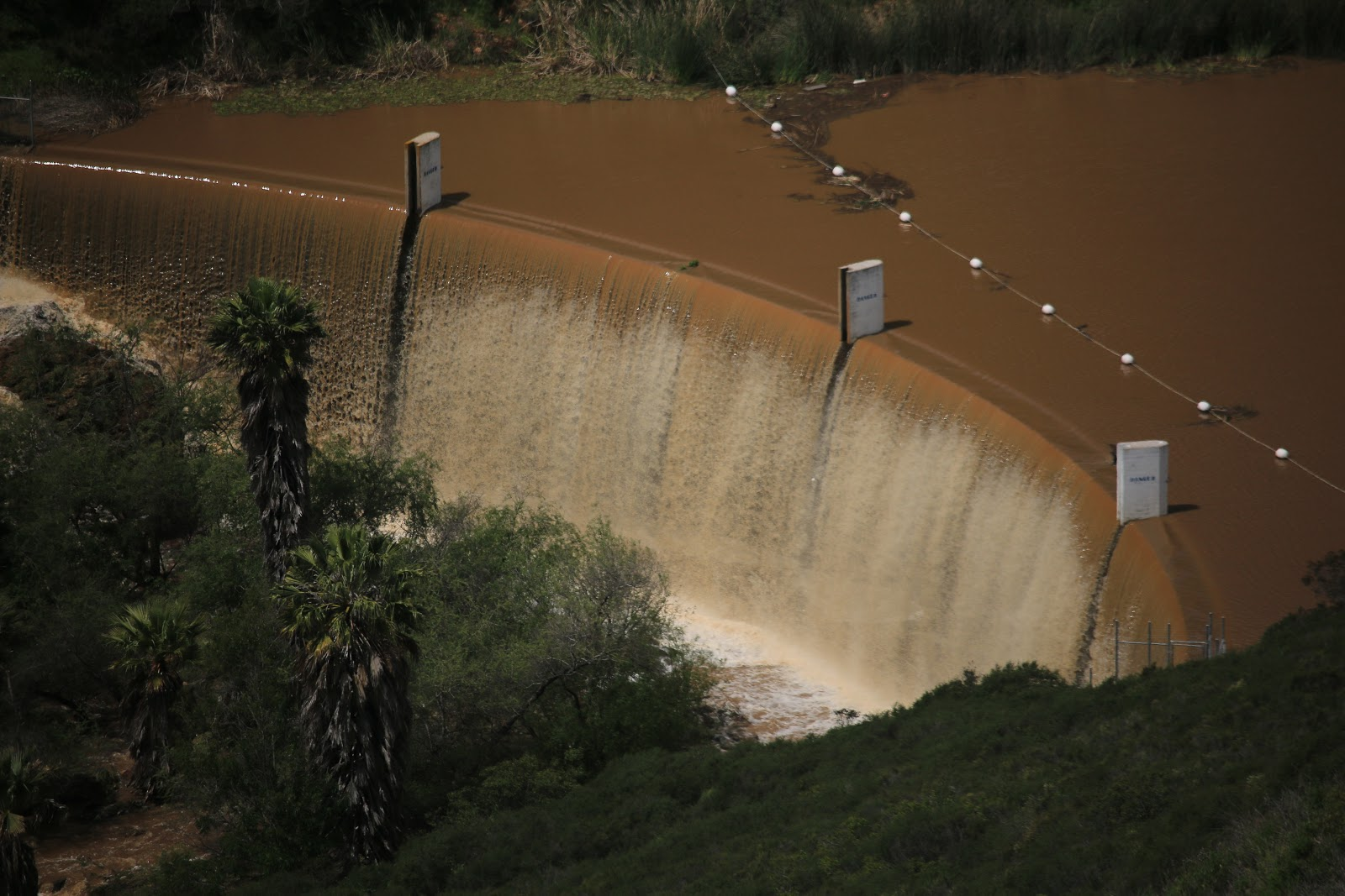 Photo of the Lake San Marcos Dam overflowing after heavy rains in April 2020